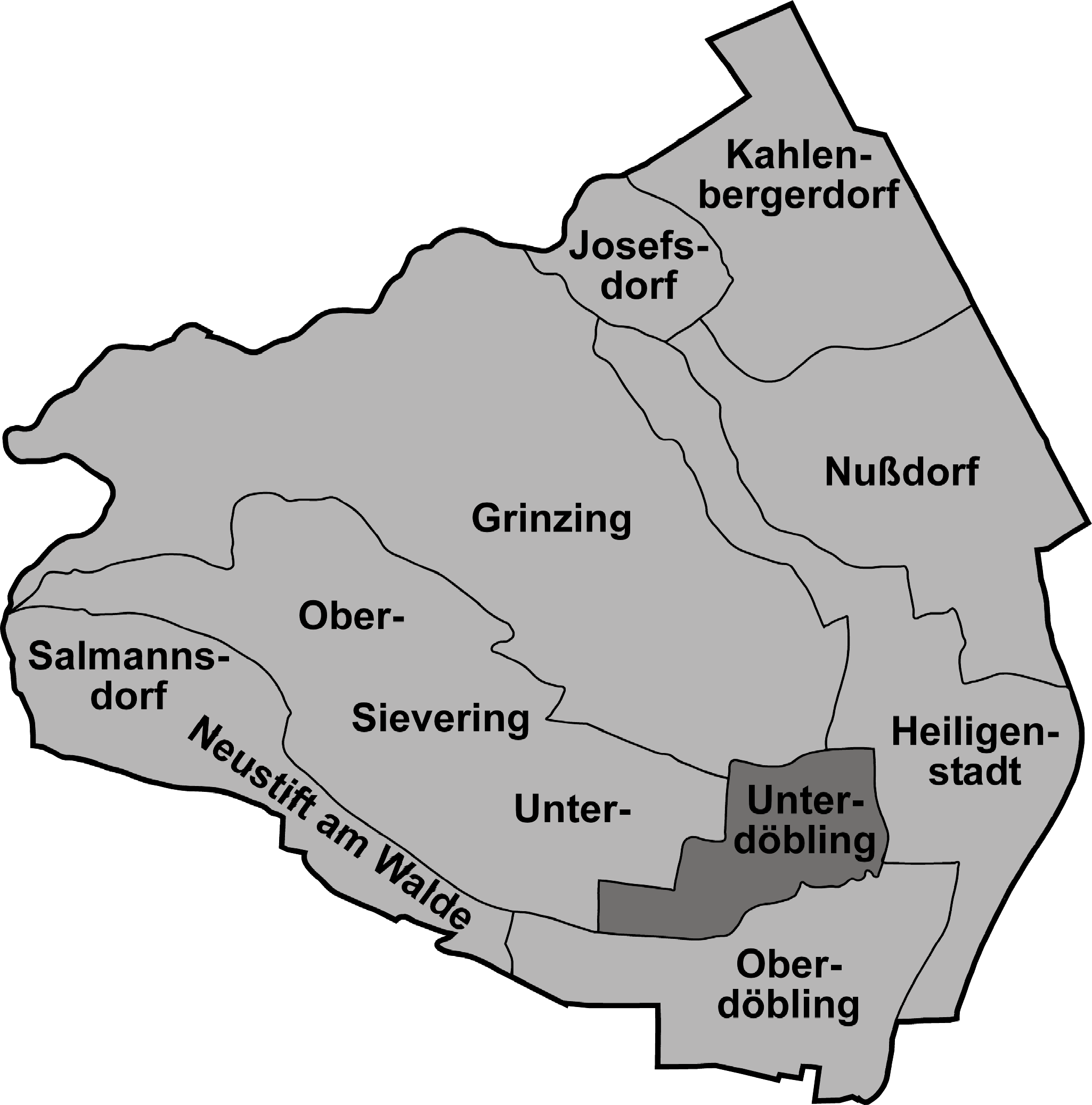 Map of Döbling, Unterdöbling highlighted